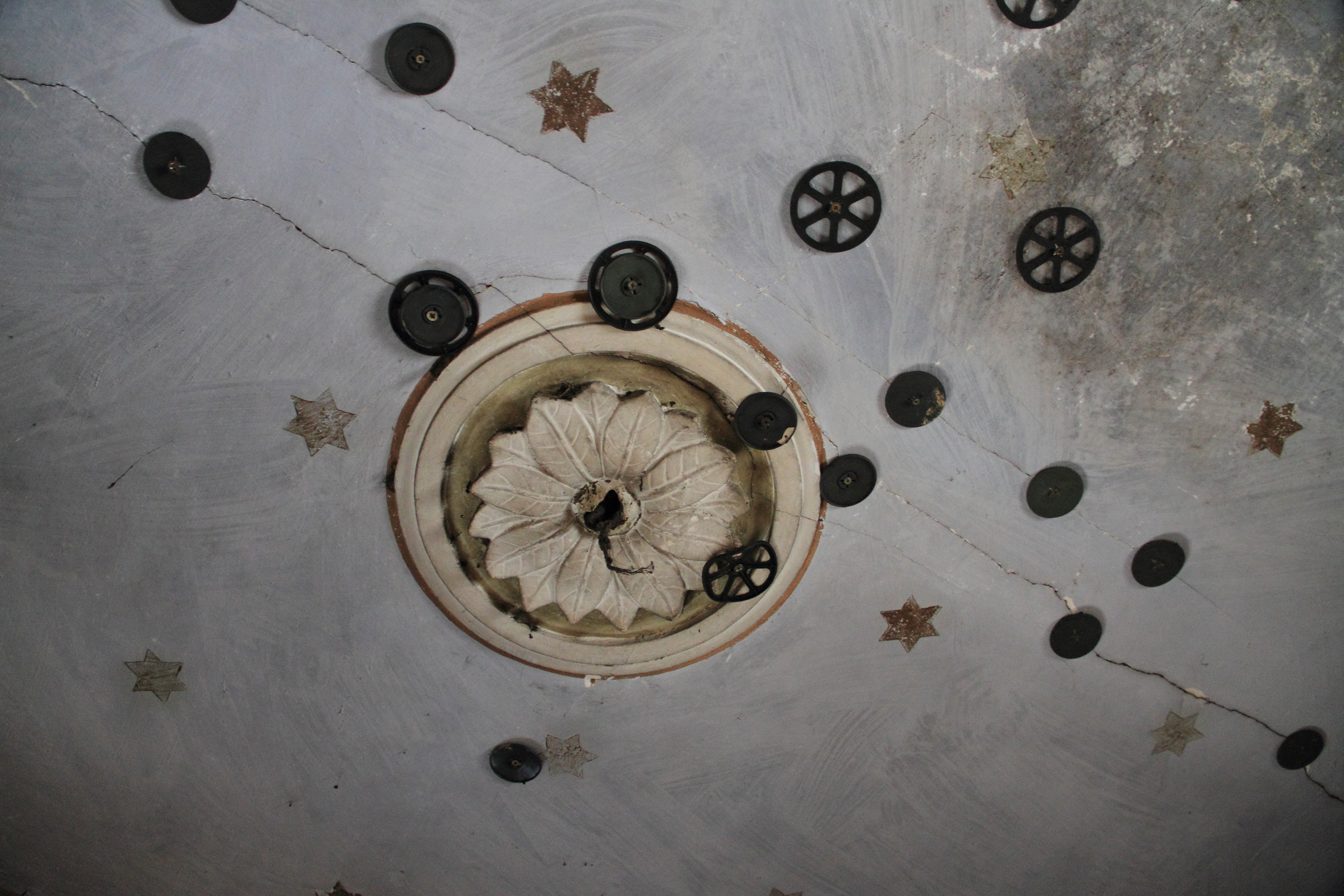 The house at Wilhelmstraße 16 was a synagogue until 1928. Since the end of the 1950s it is used as a cabinetmaker´s workshop.